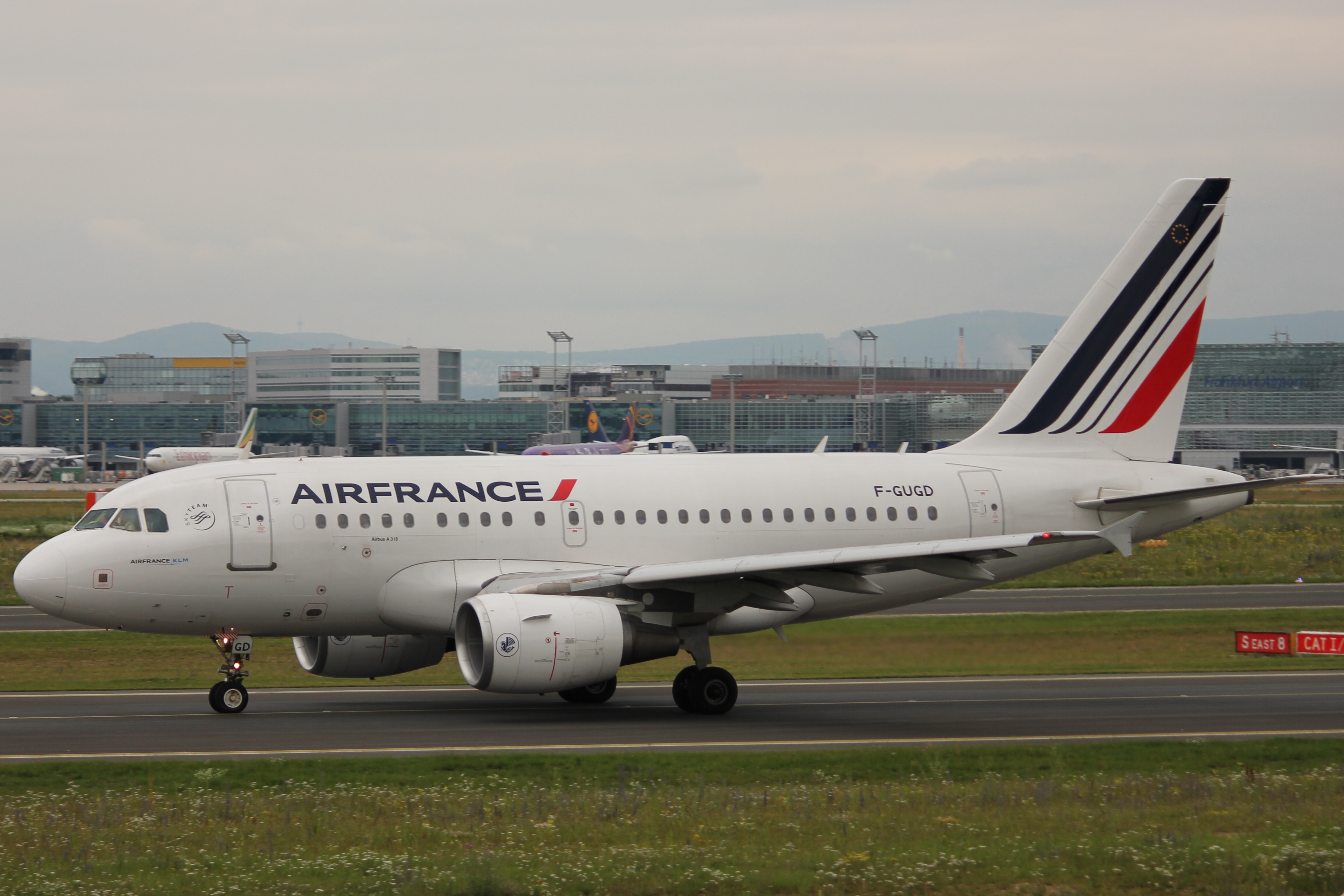 Air France A318 taxies at Frankfurt intl. Airport.